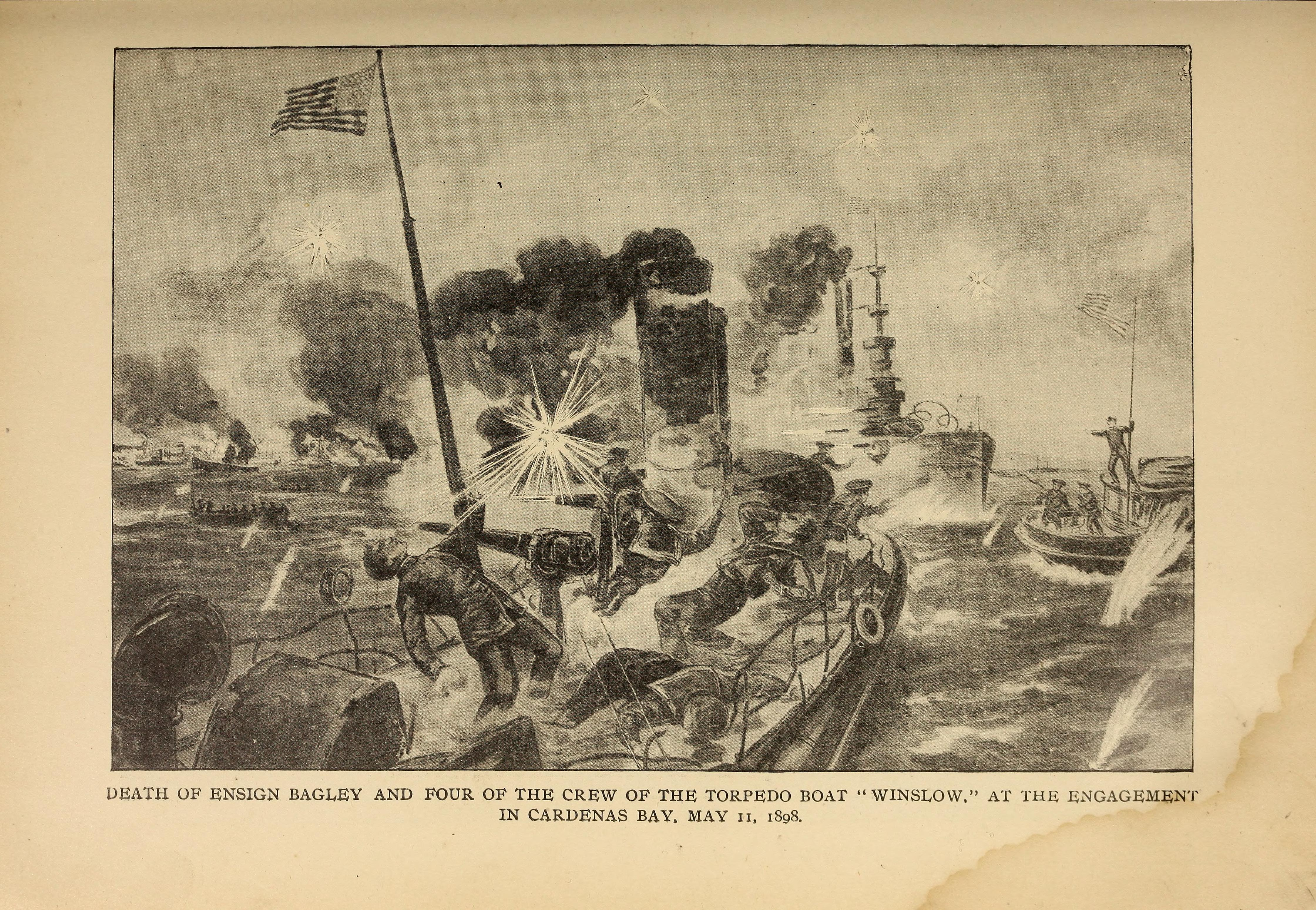 Title: Hero tales of the American soldier and sailor as told by the heroes themselves and their comrades; the unwritten history of American chivalry Year: 1899 (1890s) Authors: Buel, James W. (James William), 1849-1920 Subjects: Spanish-American War, 1898 Publisher: Philadelphia, Pa., Century manufacturing company Text Appearing Before Image: ' Text Appearing After Image: '